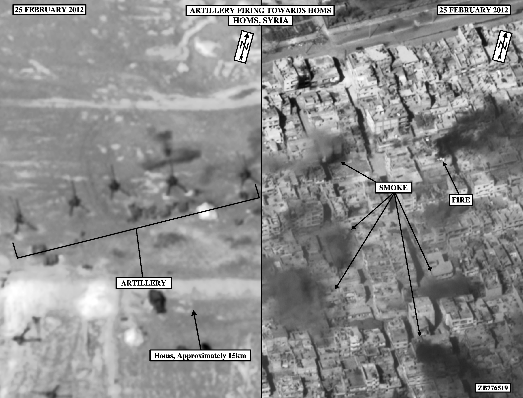 According to information available to U.S. Government sources, we noted a Syrian artillery piece had fired in the direction of Homs, Syria and smoke was coming from several locations in Homs, likely as a result of the shelling. (Feb 25)